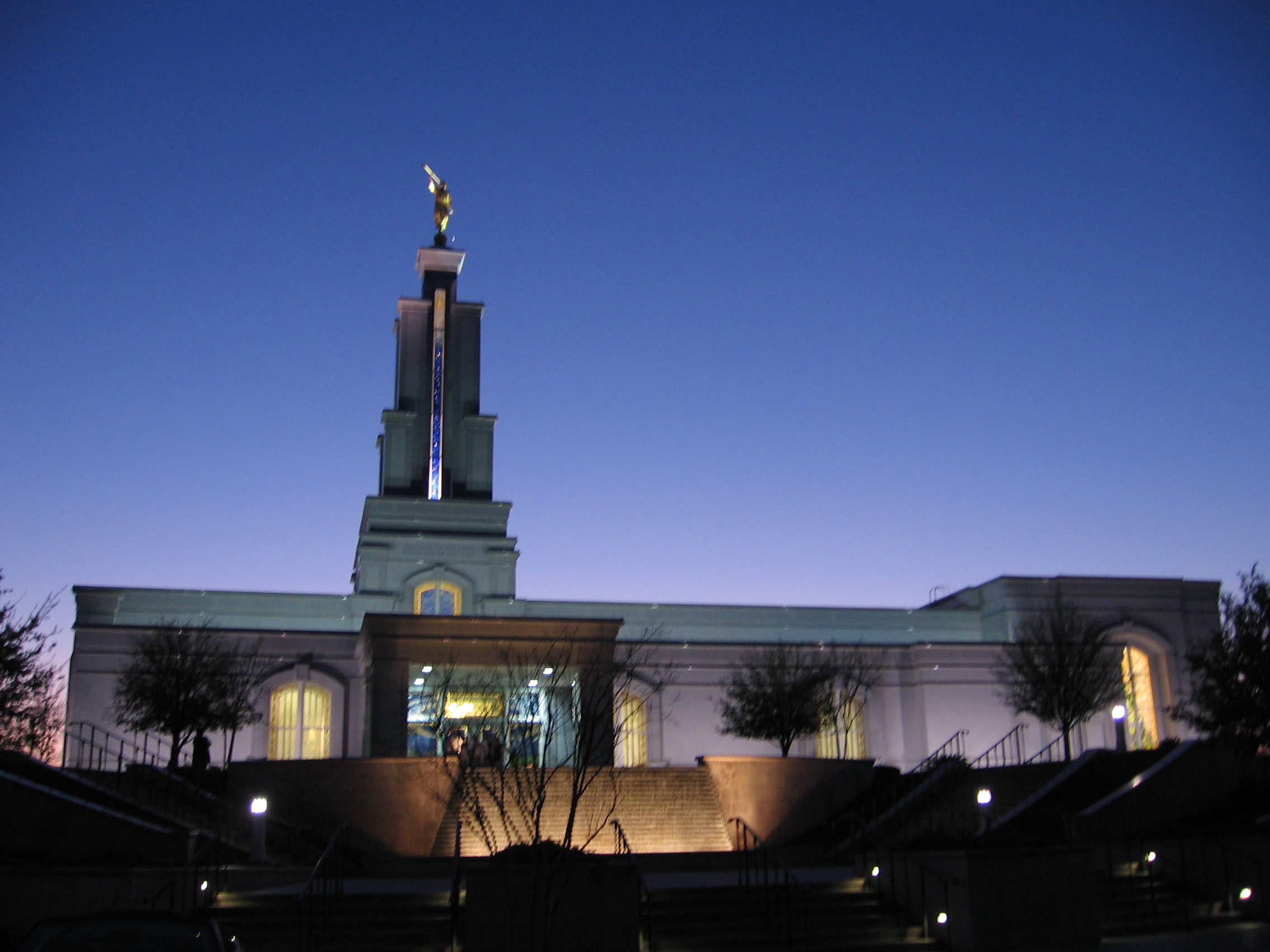 The San Antonio Texas Temple of The Church of Jesus Christ of Latter-day Saints, Rockford1963, taken 3/2007